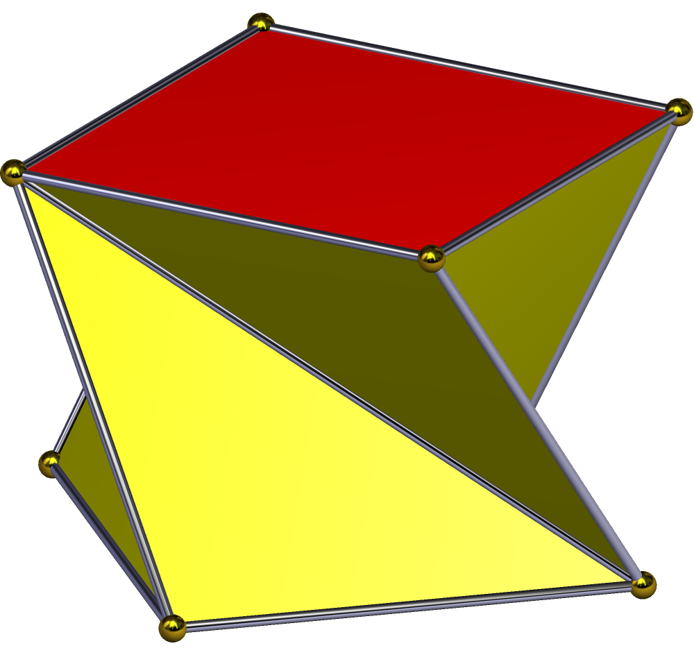 This solid can be called a twisted square prism because it can be formed by "twisting" a square prism. But there are two ways one can "twist" a square prism (or rectangular prism): If I physically twist a clay prism, the four connecting squares (or rectangles) become twisted parallelograms (not the solid shown). If I rotate the top square relative to the bottom square, and only allow straight edges and planar faces, nothing "slips" or "snaps" (like with the gyrobicupolae). I must replace the four connecting squares (or rectangles) with four pairs of triangles (as shown here). That operation seems like more than just "twisting". Also, the resulting "twisted prism is topologically identical to the antiprism" – a prism becomes an antiprism for any twist other than 0 degrees. If I rotate the top square relative to the bottom square of a uniform [or regular] square antiprism, the triangles change proportions, but the number of faces does not change. "Twisted square antiprism" names this solid unambiguously, and is in use for it (Twisted antiprism on Wolfram), so it seems preferable.